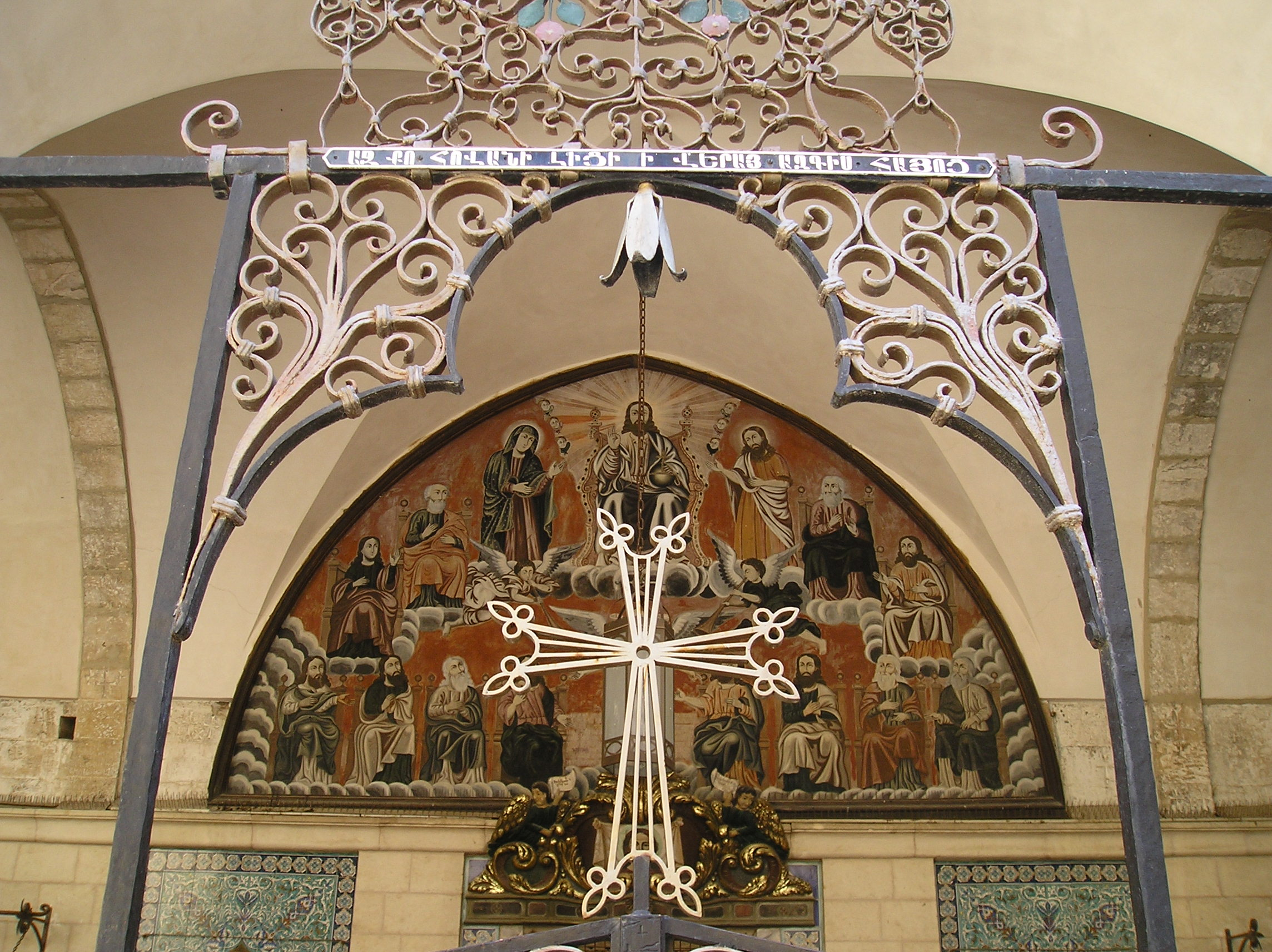 The entrance to the Saint James Cathedral in the Armenian Quarter of Jerusalem.